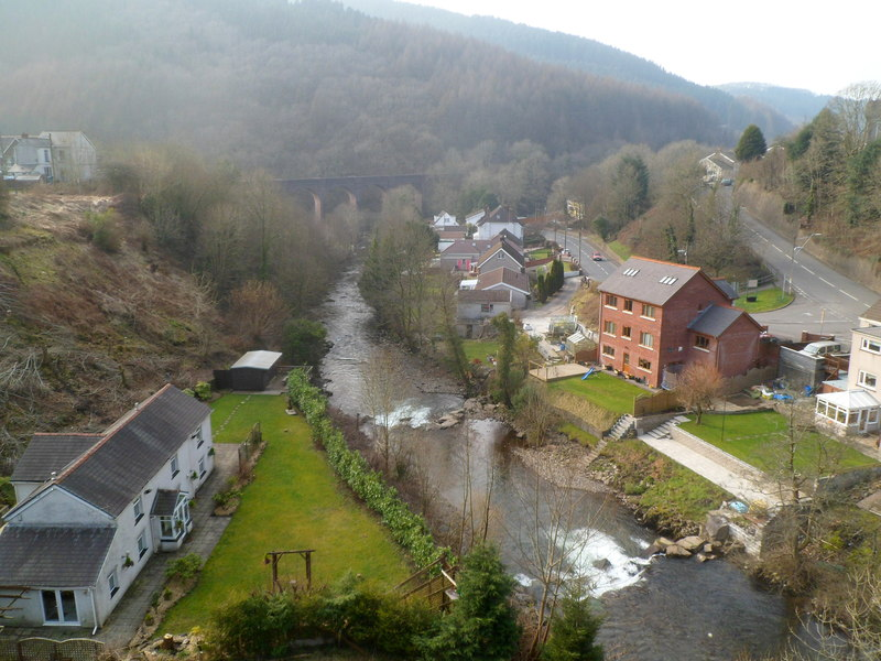 River view from aqueduct to railway bridge, Pontrhydyfen